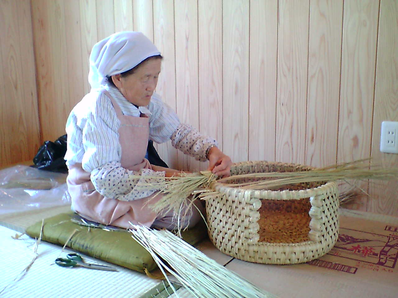 Production of the pet house of a cat called Neko-chigura, Japanese folkcraft.